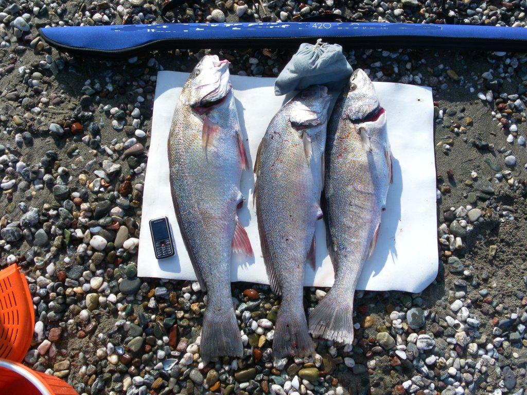 Shi drum (Umbrina cirrosa) from the Black Sea, Samsun, Turkey